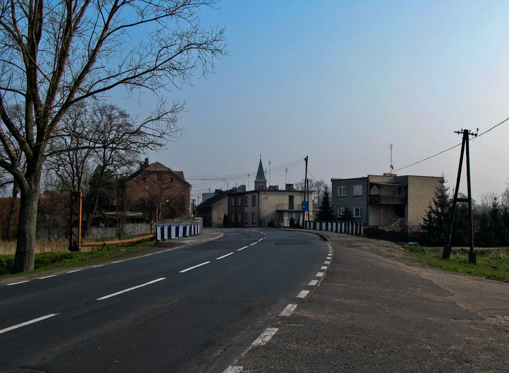 Kopanica, border bridge (there was a border between Germany and Poland from 1921 till 1939)